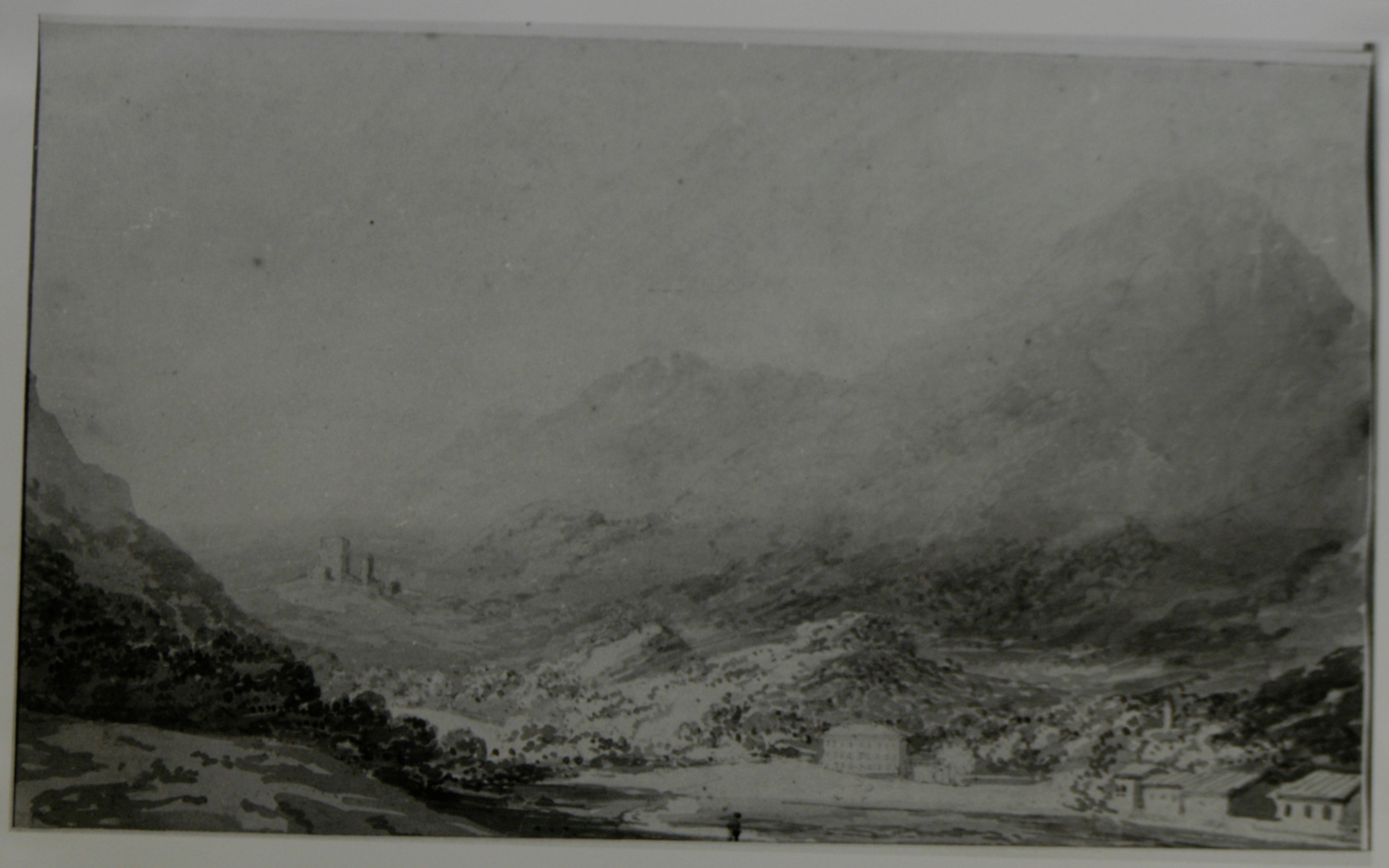 My photo (Rodolph (talk) 01:28, 25 May 2014 (UTC)) of a repro of Bondo and Castlemur, Promontogno, from the south by John Robert Cozens, or J. M. W. Turner. Other information It is known when Cozens passed down or up the Bregaglia, circa 1770s.